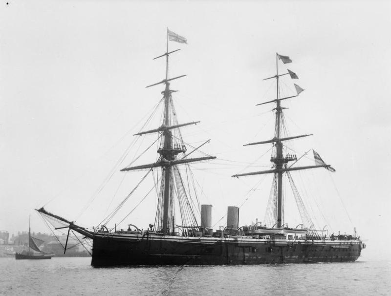 Symonds and Co Collection H. M. S. Temeraire.